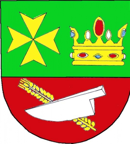 Coat of arms of Hvozd, Plzeň-North District